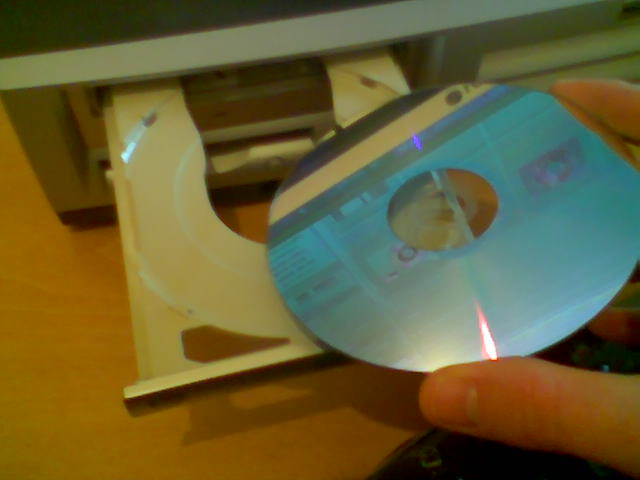 Pic of DVD on way to drive